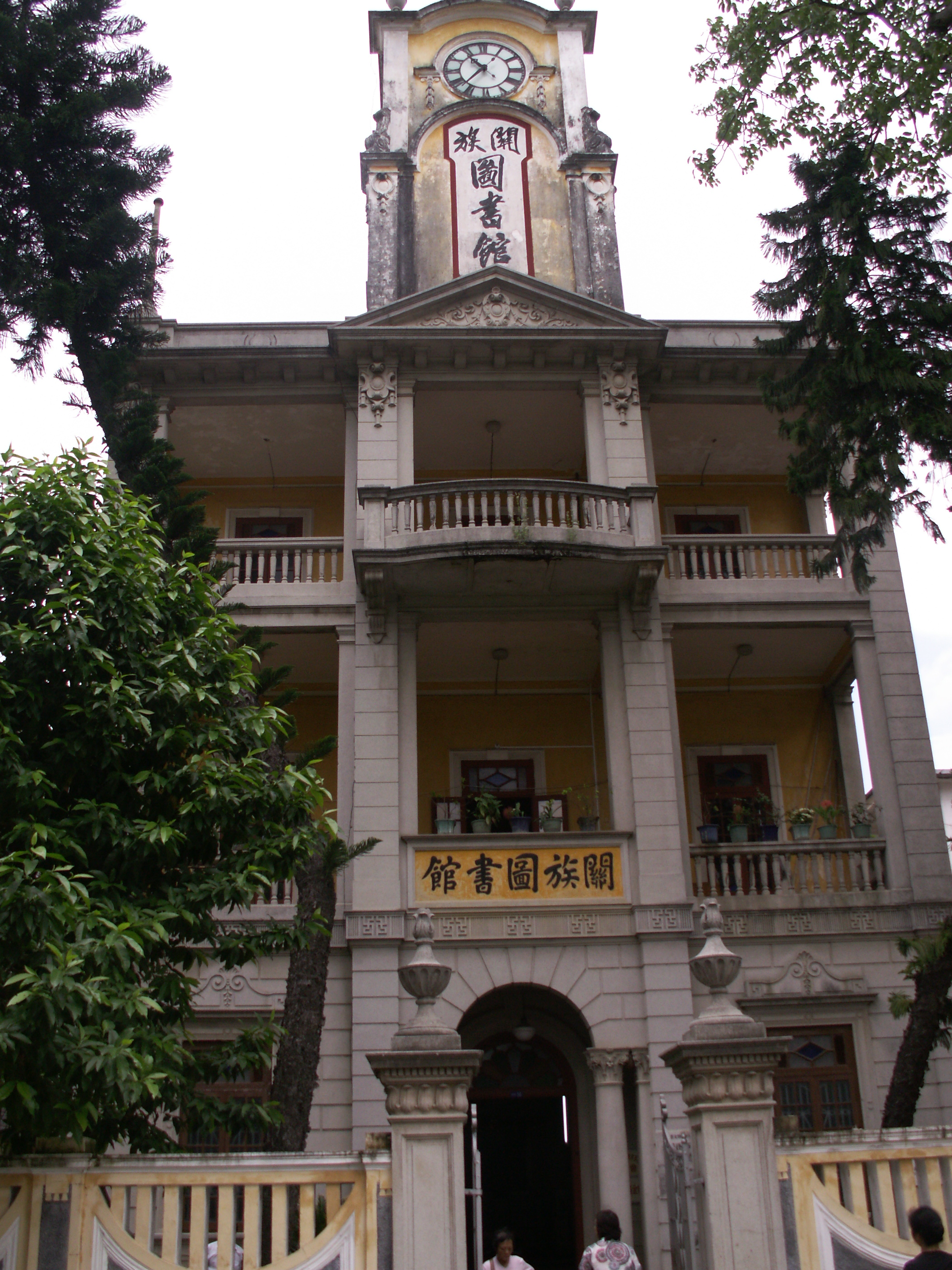 The Guan's Library in Chikan, Kaiping